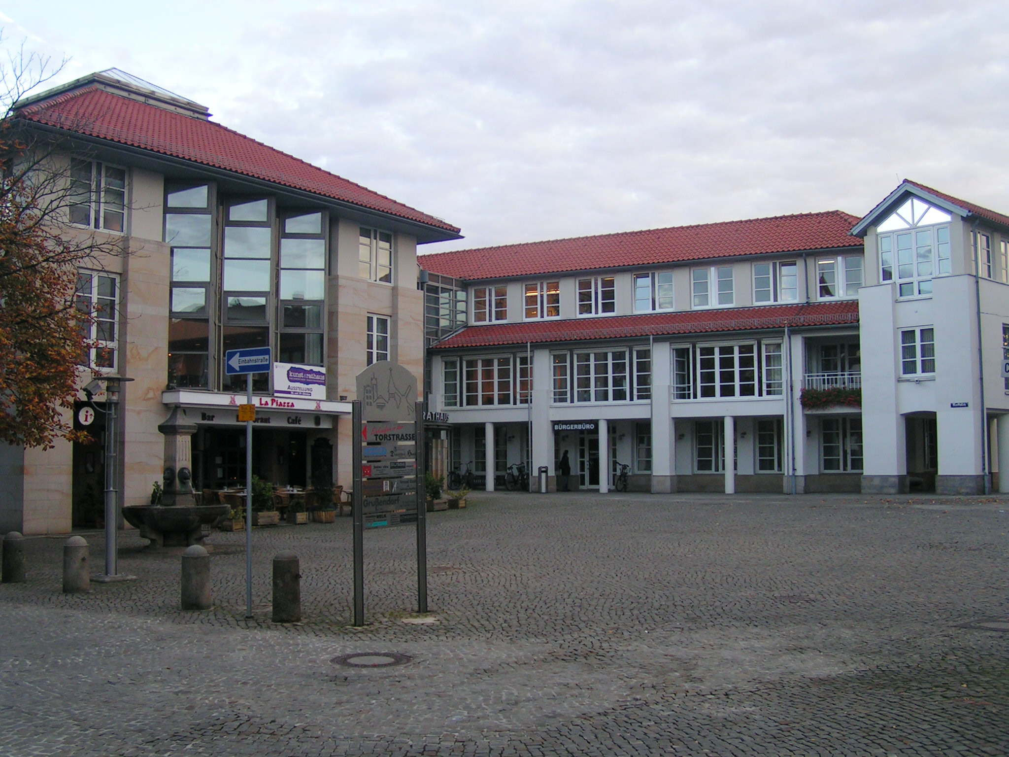 Rathaus (town hall) of Gifhorn, Germany